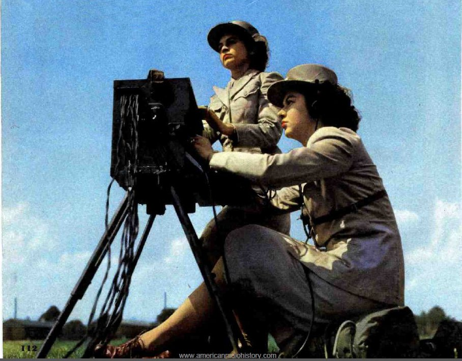 Two Signal Corps field telephone operators of the US Women's Army Corps (WAC) during World War 2, from a 1944 radio magazine. The source does not give the location, or whether it was taken during a training exercise or in combat. Caption: "Portable field telephone setup operated by feminine operators. They are all skillfully trained." Alterations to image: cloned in a small amount of sky in top left which was overlaid by the corner of another image